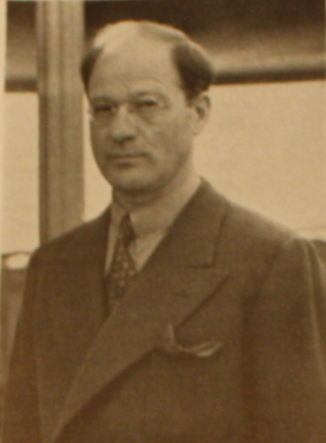 Portrait of Avery Brundage, president of the United States Olympic Committee